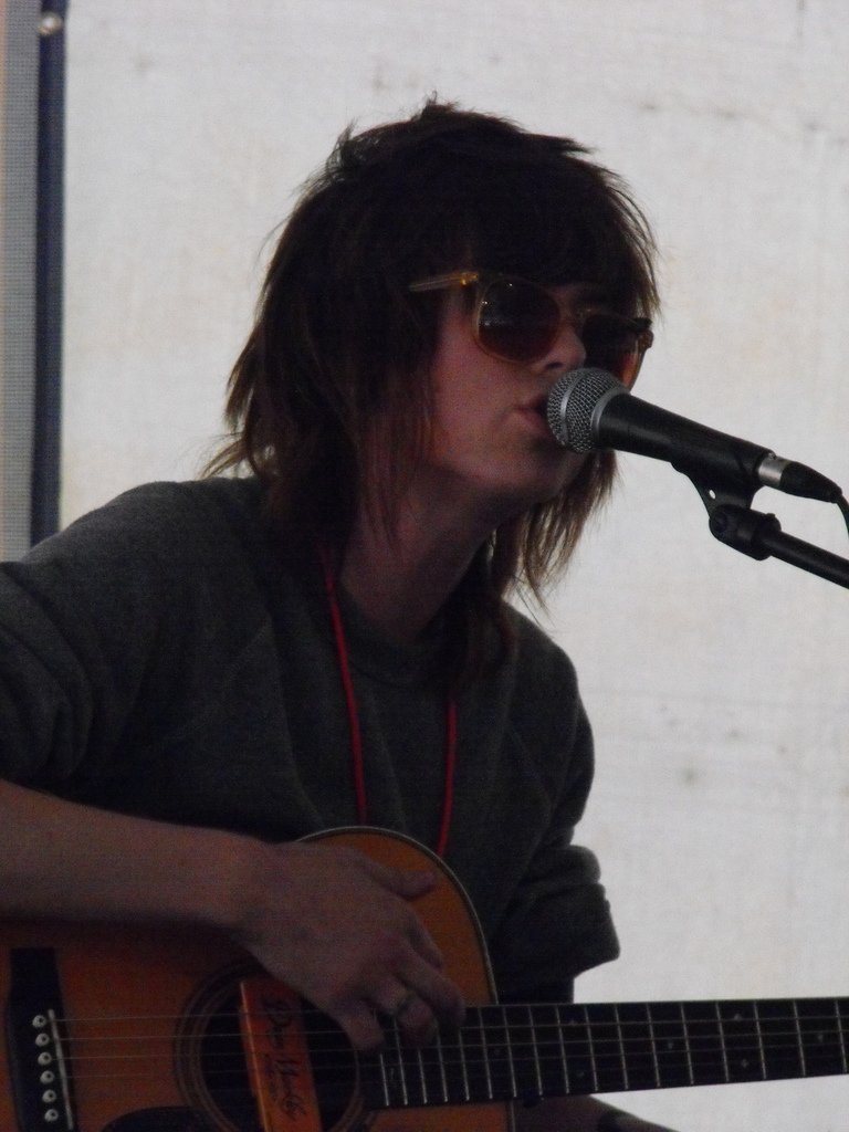 Christofer Drew of Nevershoutnever! May 2, 2009 in the VIP tent @ Bamboozle 2009 in New Jersey. i also failed at getting a picture with him, but i know he hates getting his picture taken. he gave us great big hugs though!